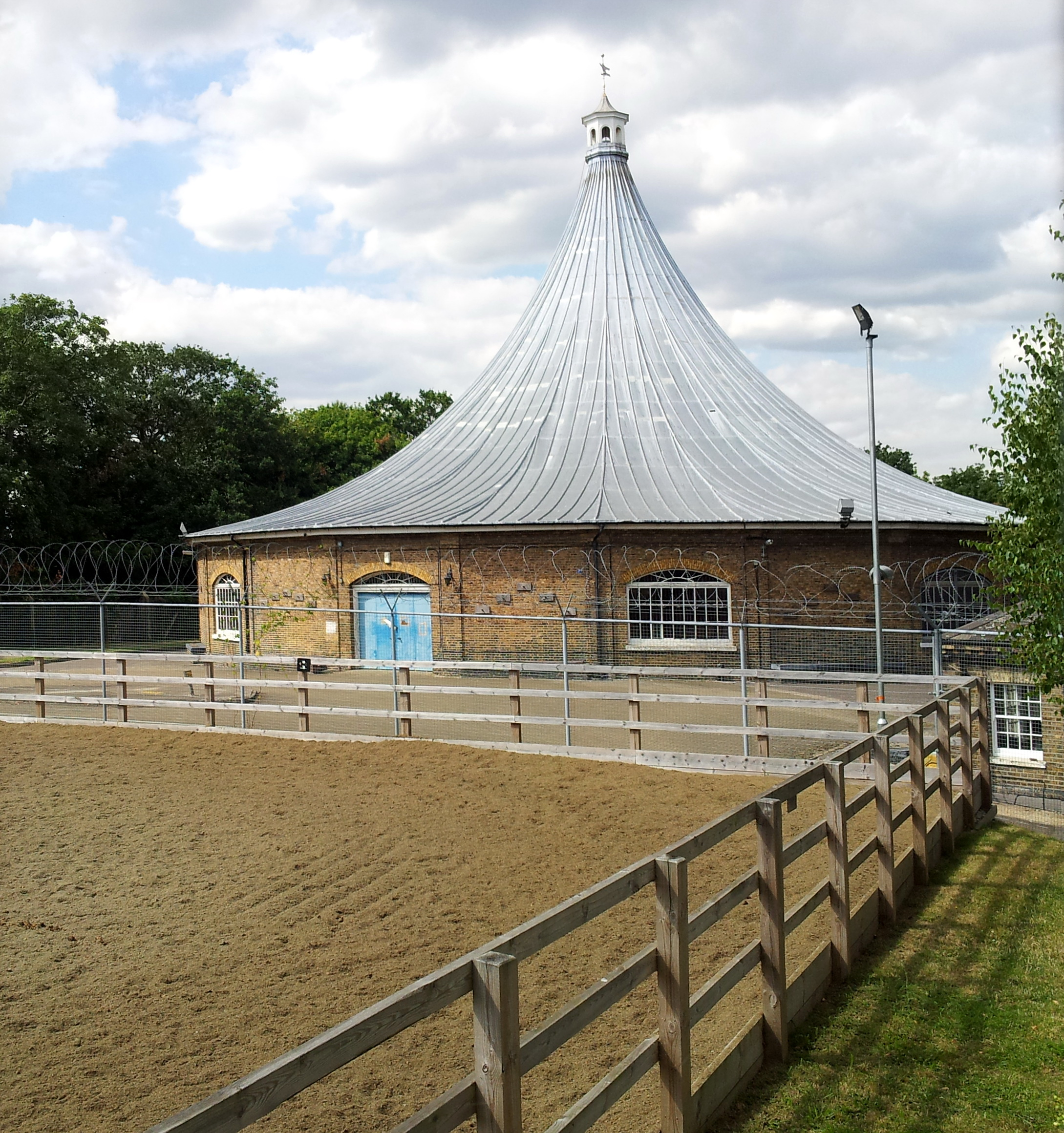 View of the Rotunda, designed by John Nash for St. James's Park in 1814 and moved to Woolwich Common in 1820 to serve as the Royal Artillery Museum (until 2001), Green Hill, Woolwich, Southeast London. In the foreground a horse corral used by the King's Troop, Royal Horse Artillery, based in the adjacent Napier Lines Barracks.